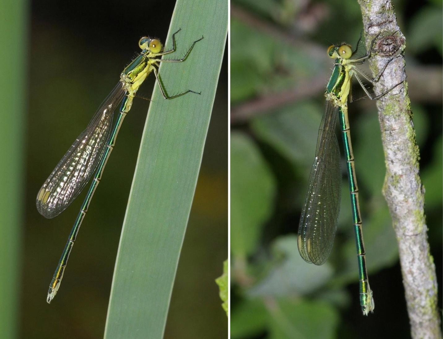 Immature specimens of the damselfly Lestes virens vestalis; left: a young male, right: a young female.